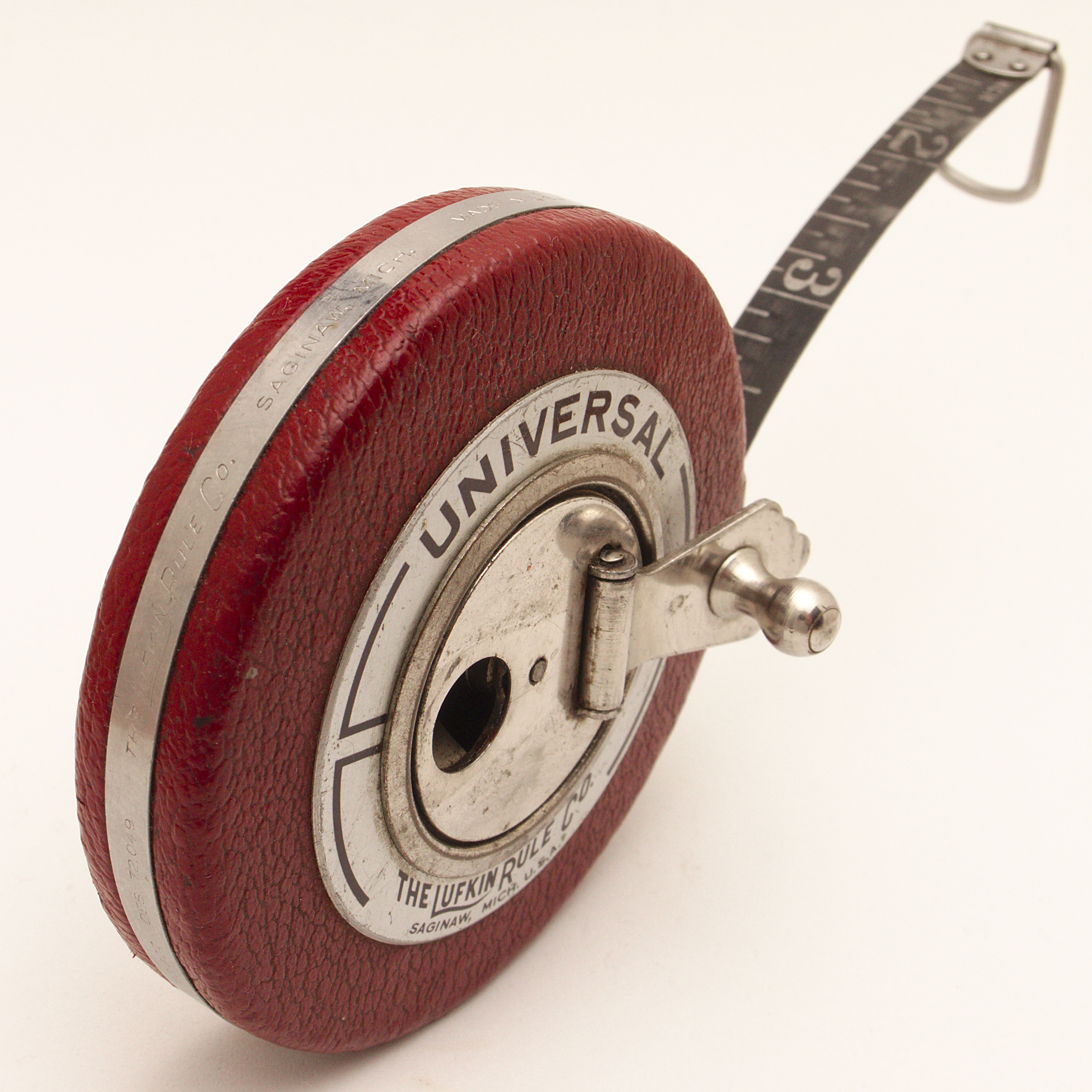 A 50-foot (15 m) tape measure produced by the Lufkin Rule Co. in Saginaw, Michigan at some point after 1929 (patent 1,713,807).